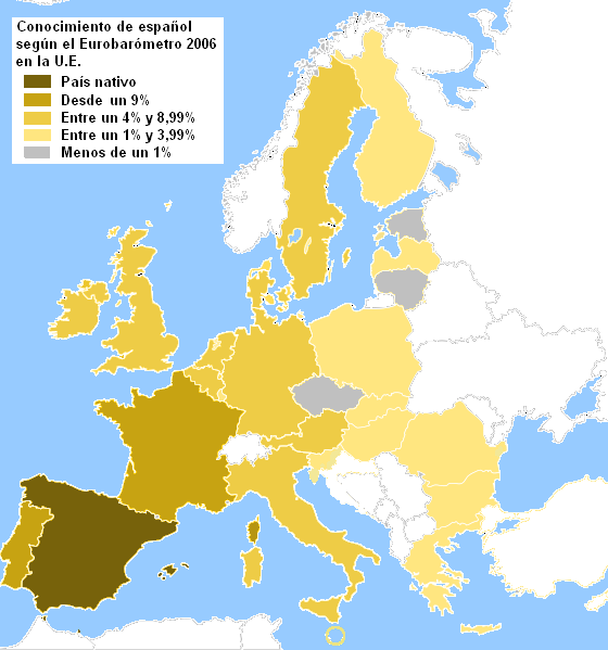 Knowledge of Spanish in European Union in 2006.